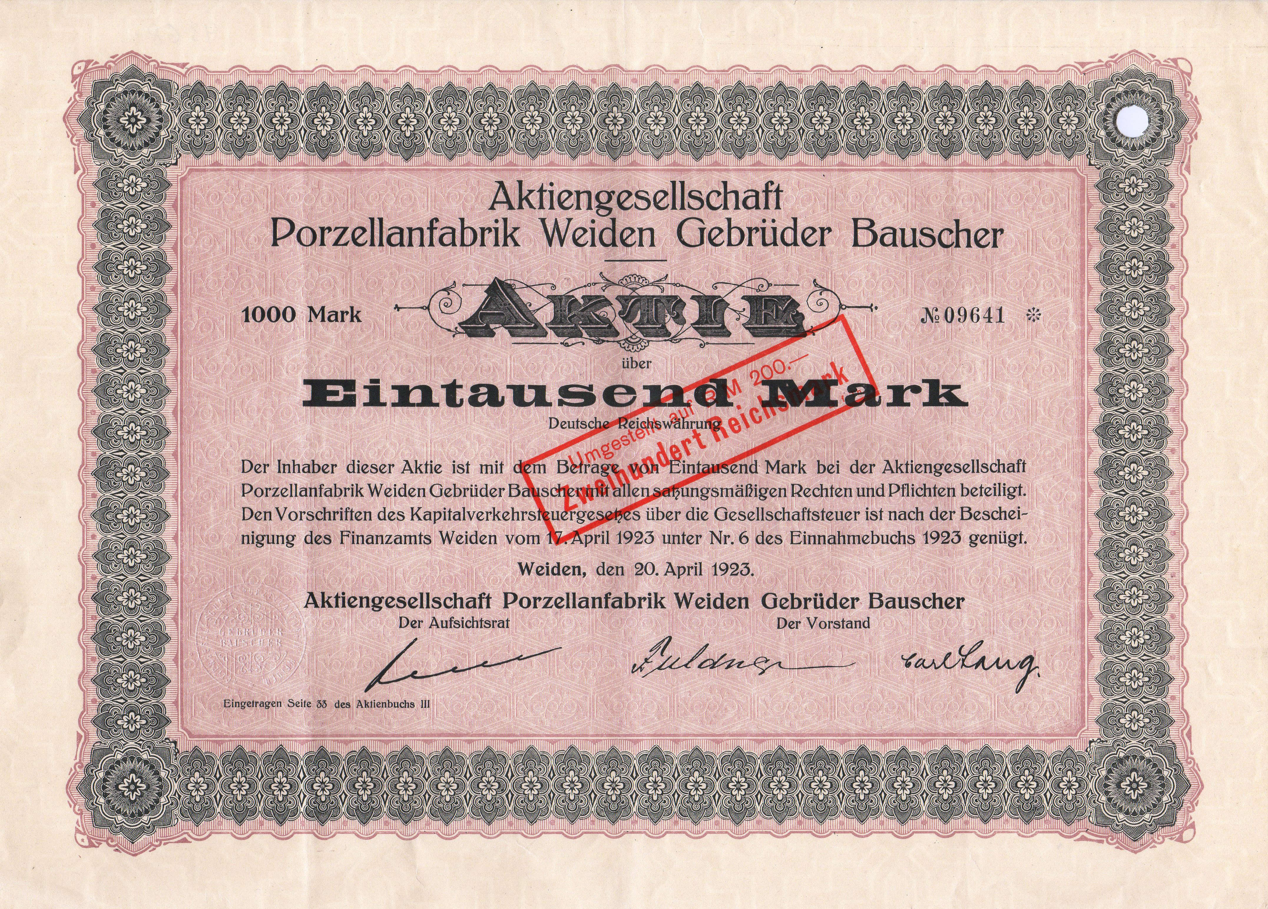 Share of the AG Porzellanfabrik Weiden Gebrüder Bauscher, issued 20. April 1923